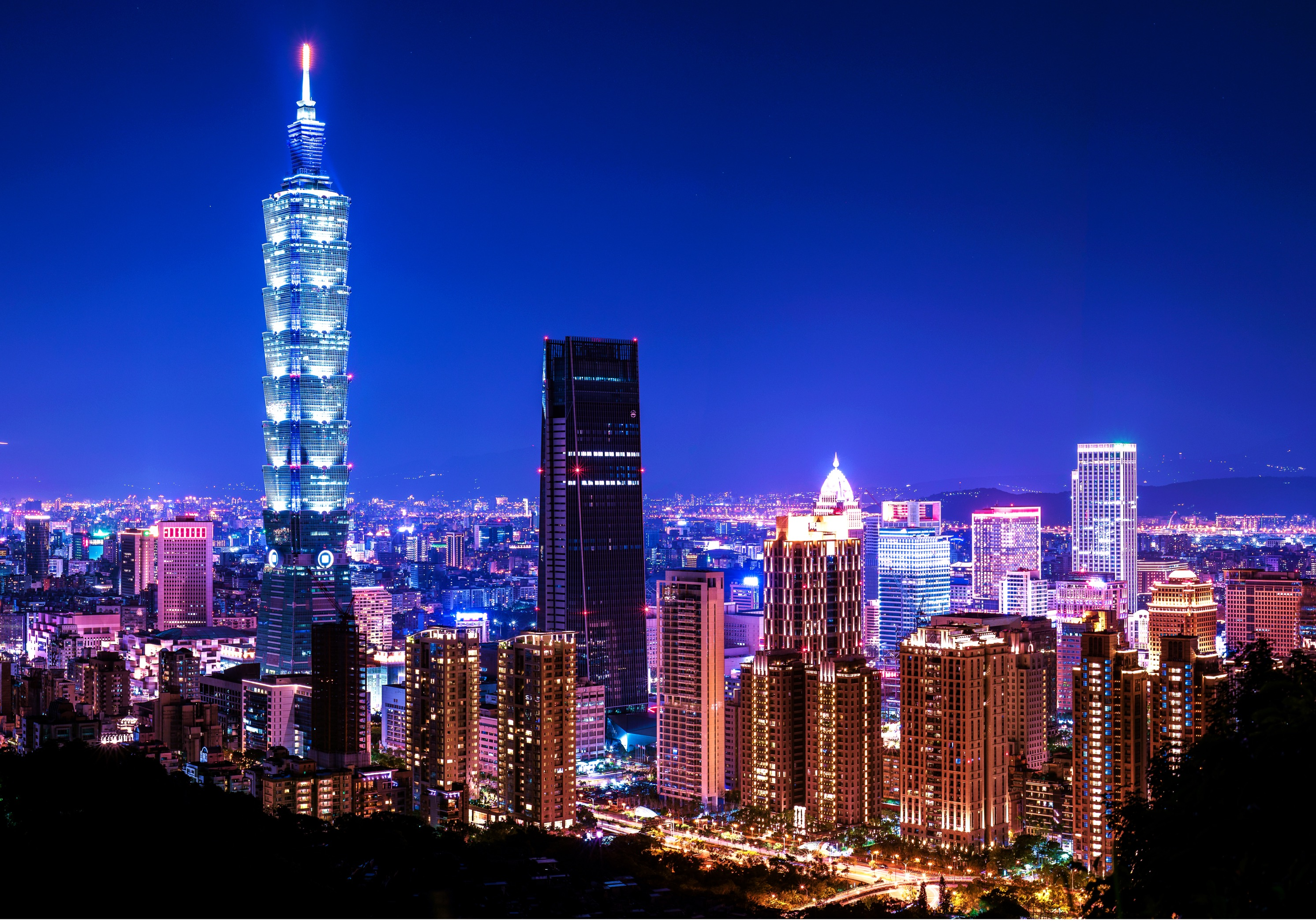 Taipei, Taiwan Night Skyline Panorama